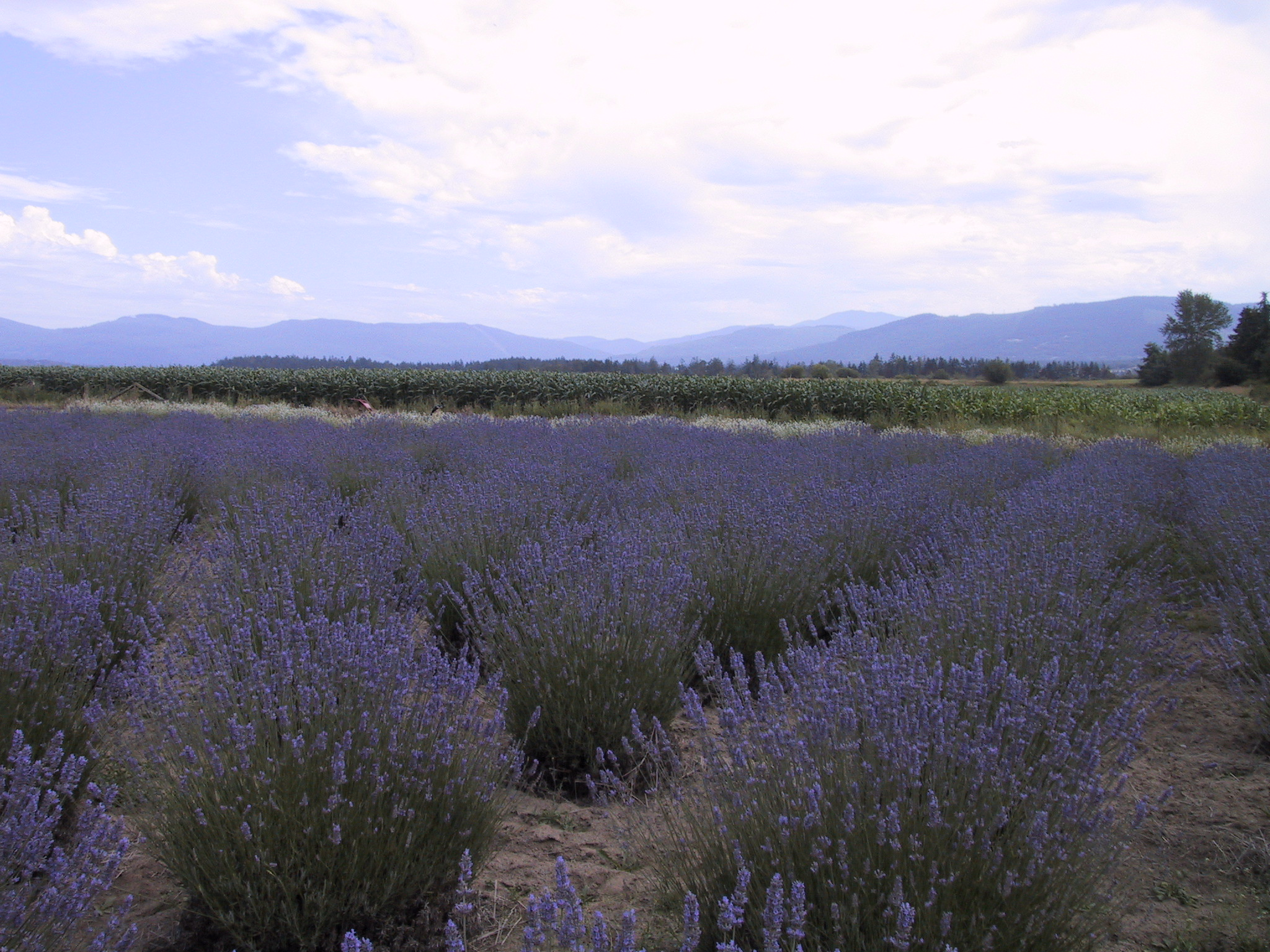 A lavender farm in Sequim, WA during the Lavender Festival